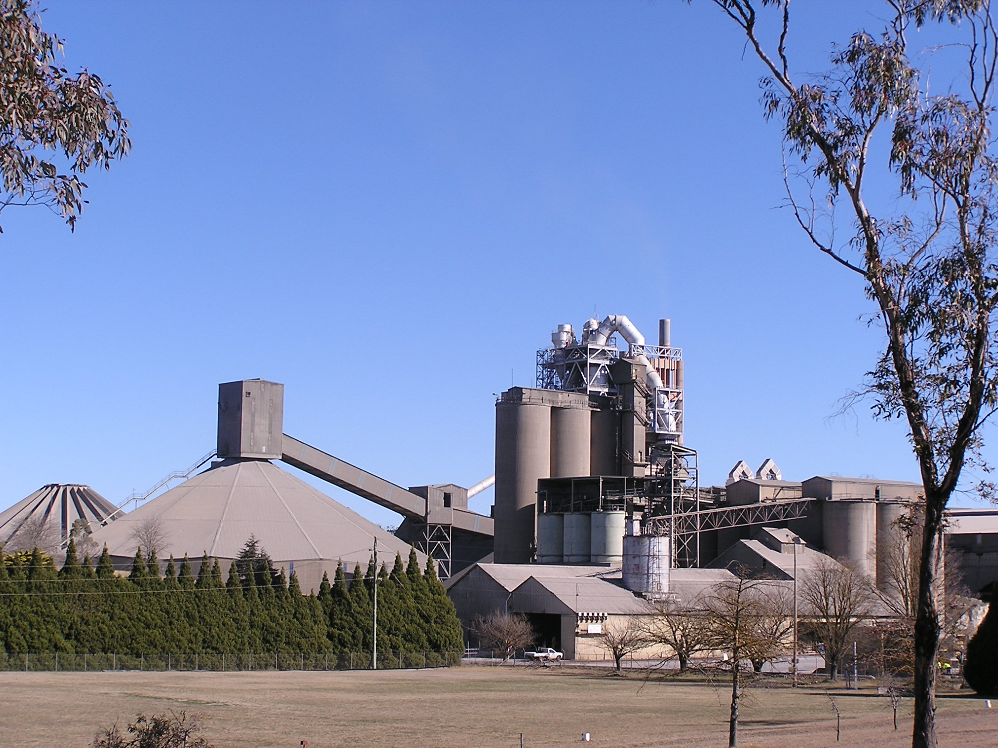 Blue Circle Southern Cement factory near New Berrima, New South Wales, Australia. Blue Circle Southern Cement is a member of the Boral Group of Companies.